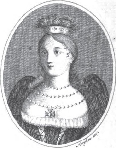 Nina Siciliana, Sicilian poet